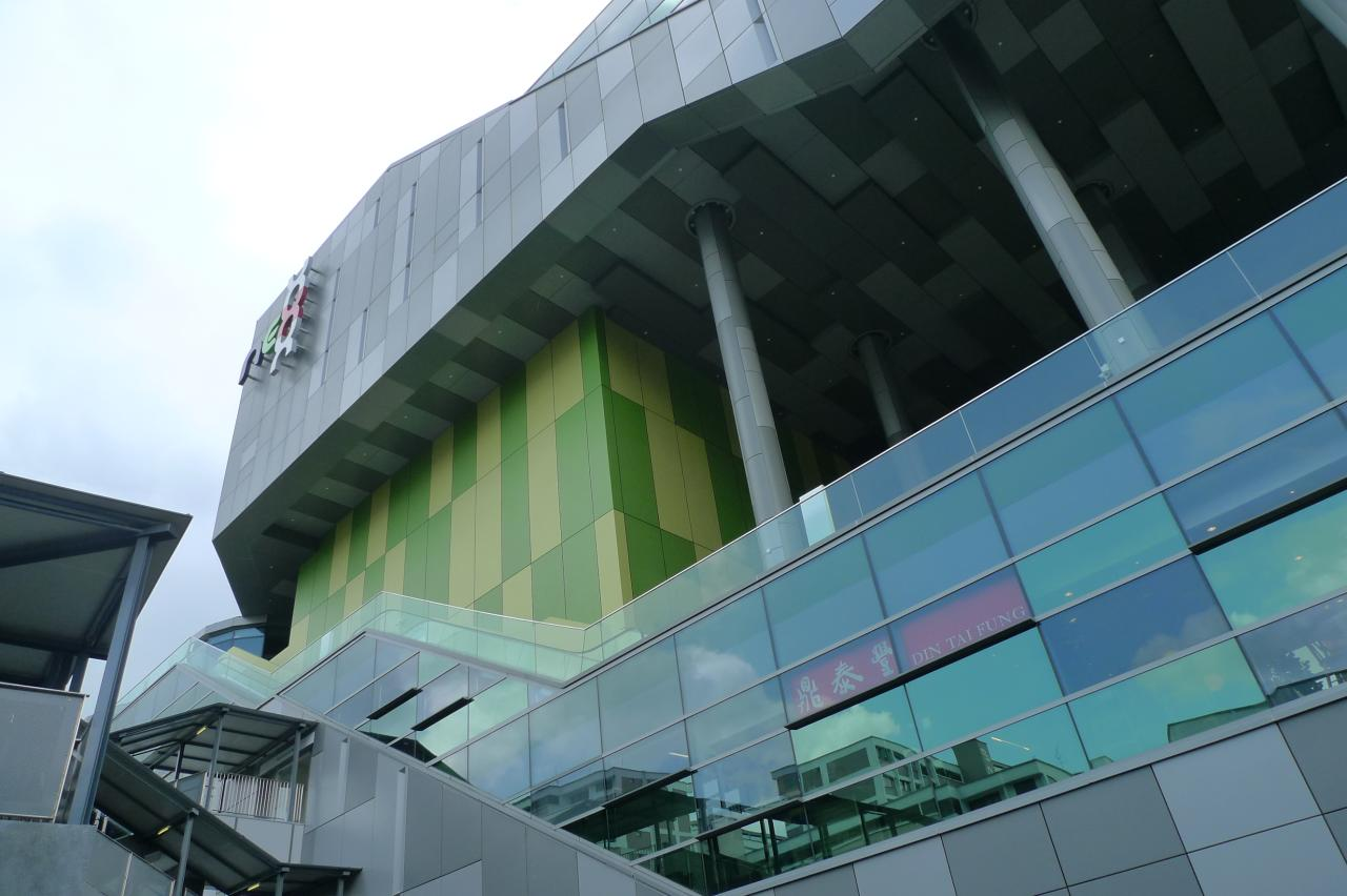 Side view of Nex shopping mall in Serangoon, Singapore.